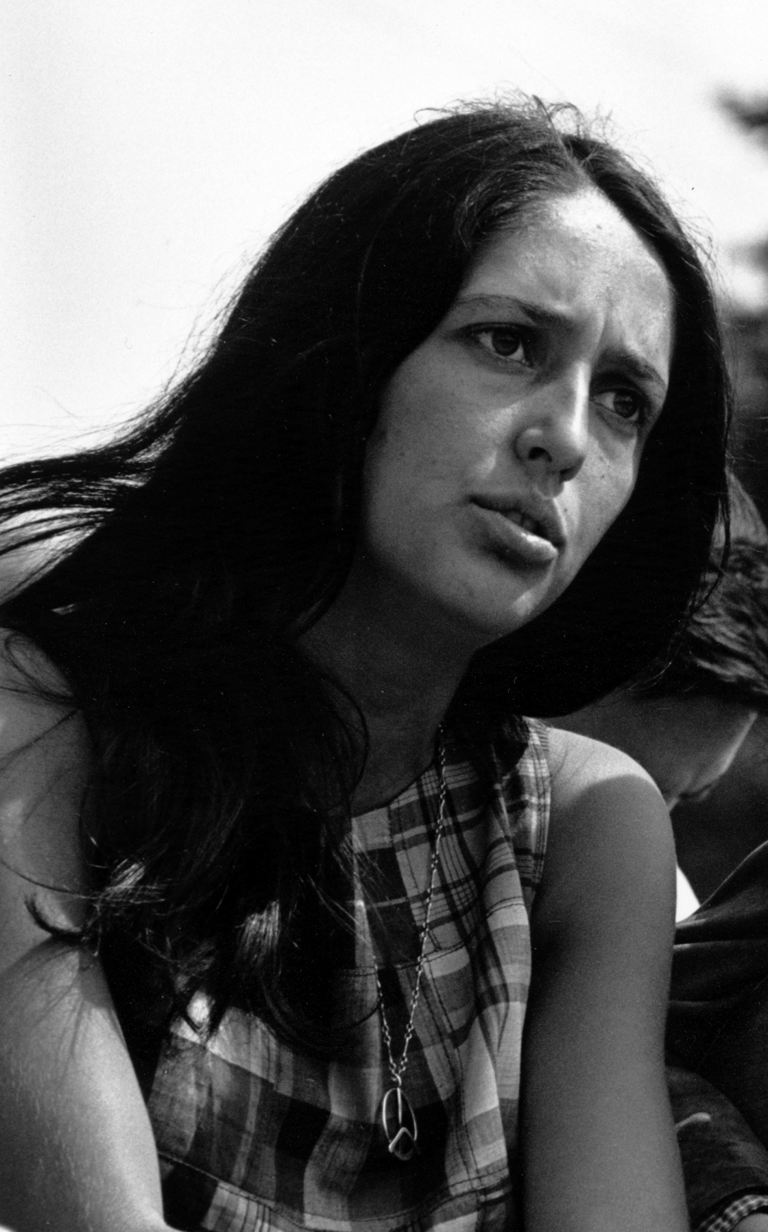 Joan Baez in the Civil Rights March on Washington, D.C., 08/28/1963